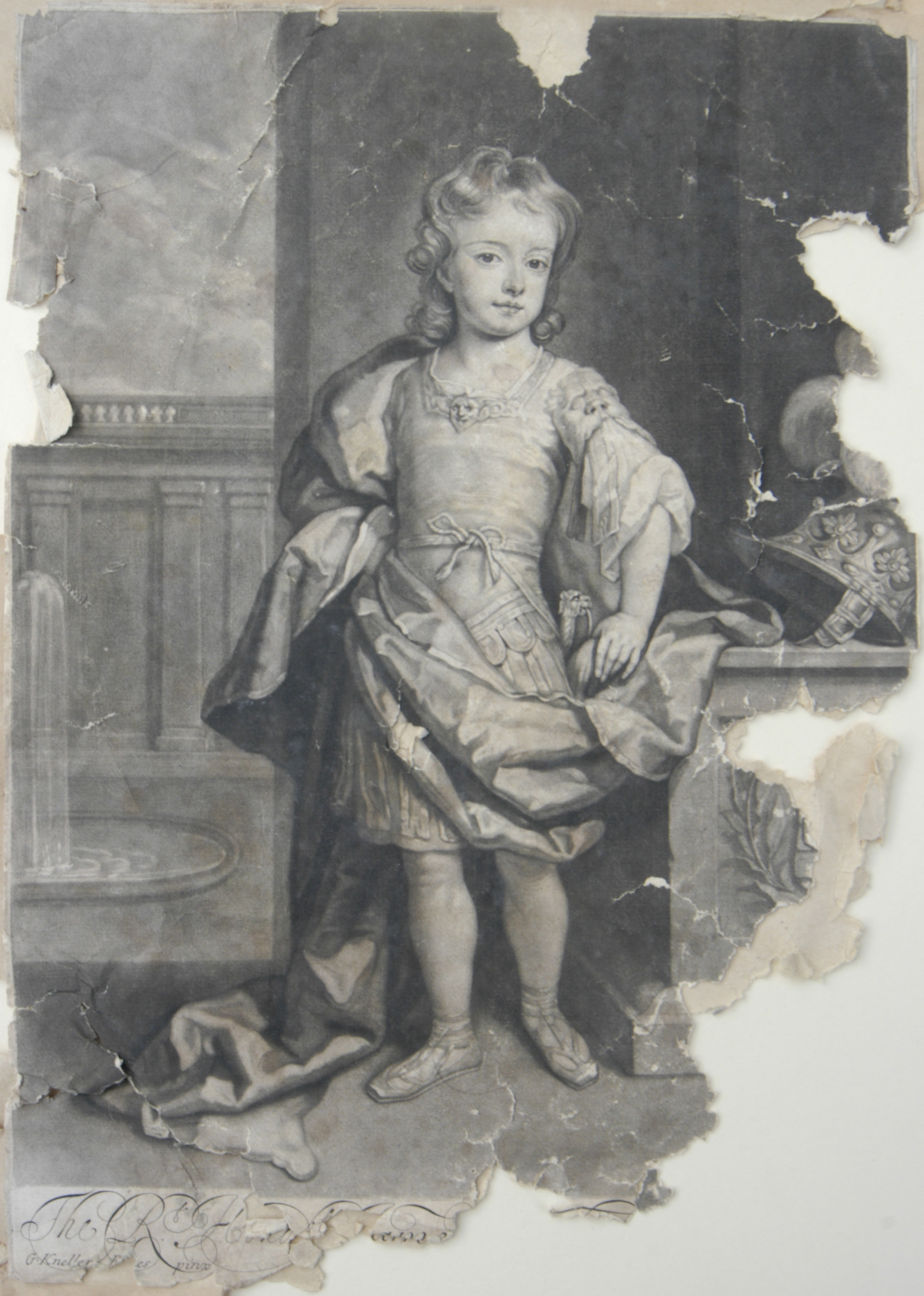 mezzotint